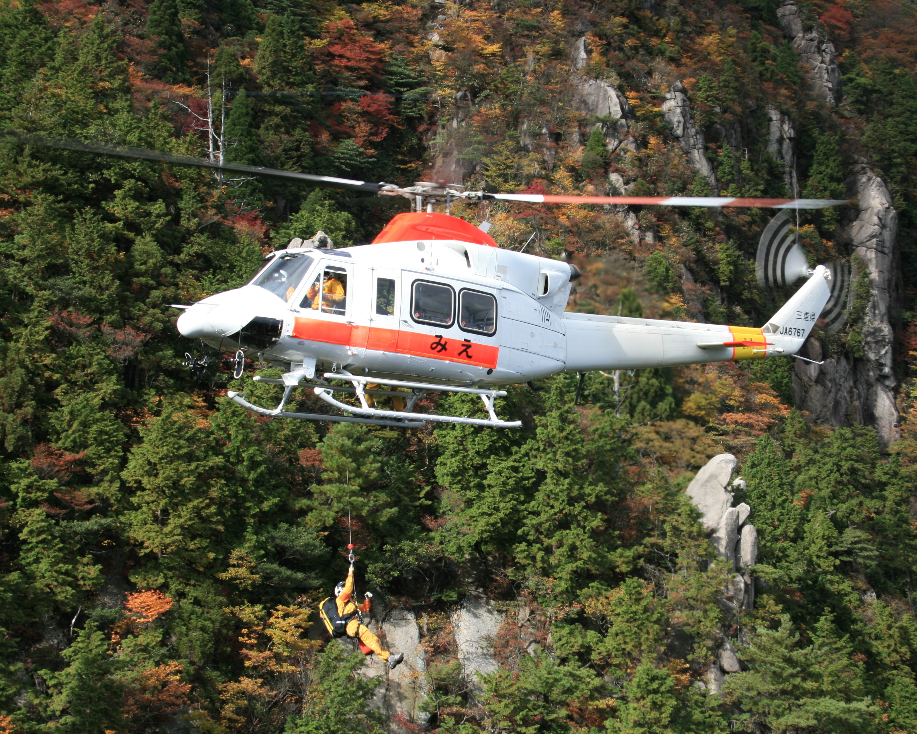 Bell 412 JA6767 in Mount Gozaisho